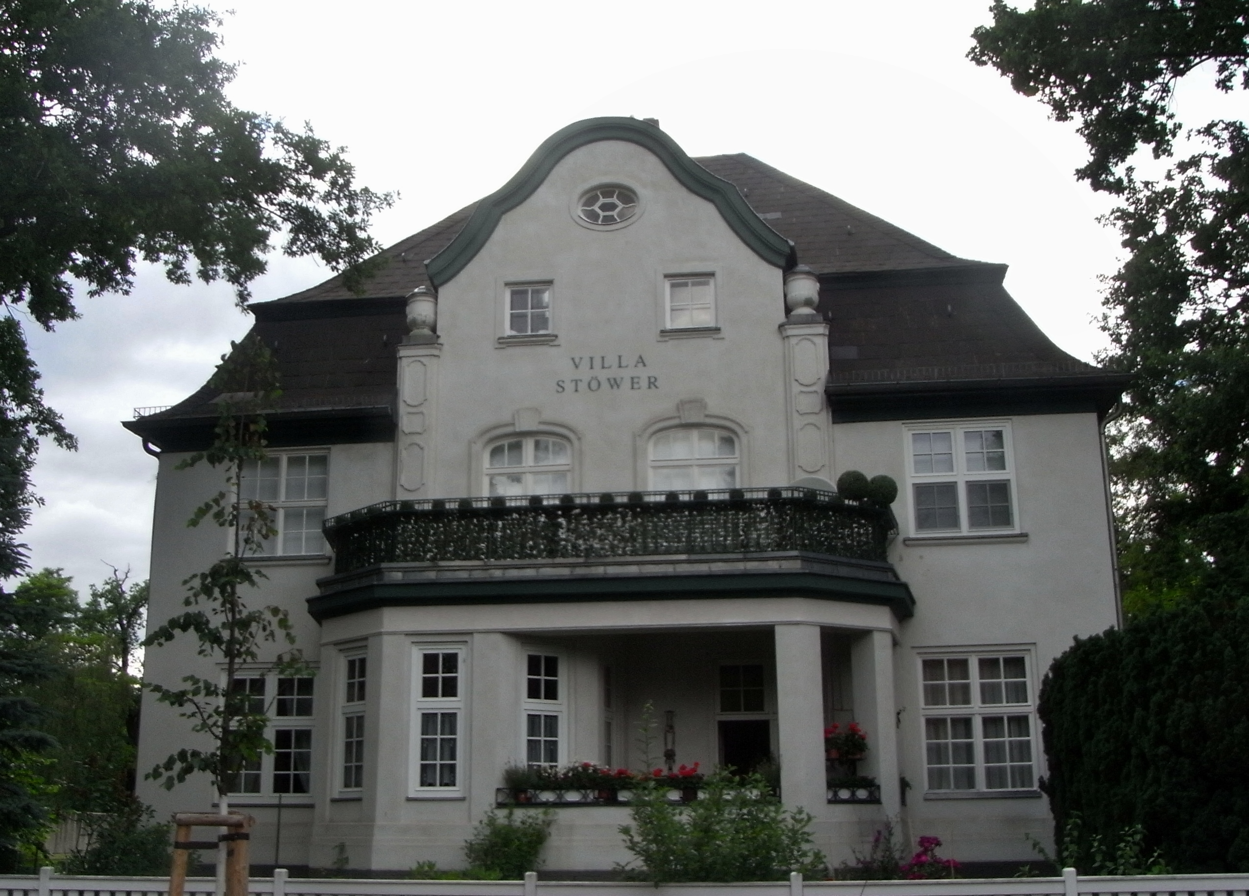 South-eastern view of the listed building Villa Stöwer in Tegel , Berlin state, Germany.